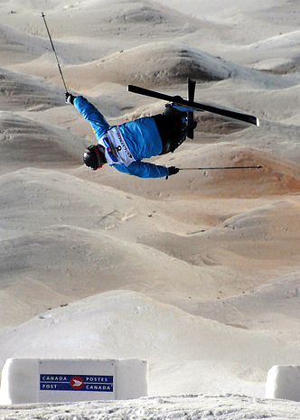 American freestyle skier Patrick Deneen in World Cup moguls at Olympic test event at Cypress Mountain, British Columbia